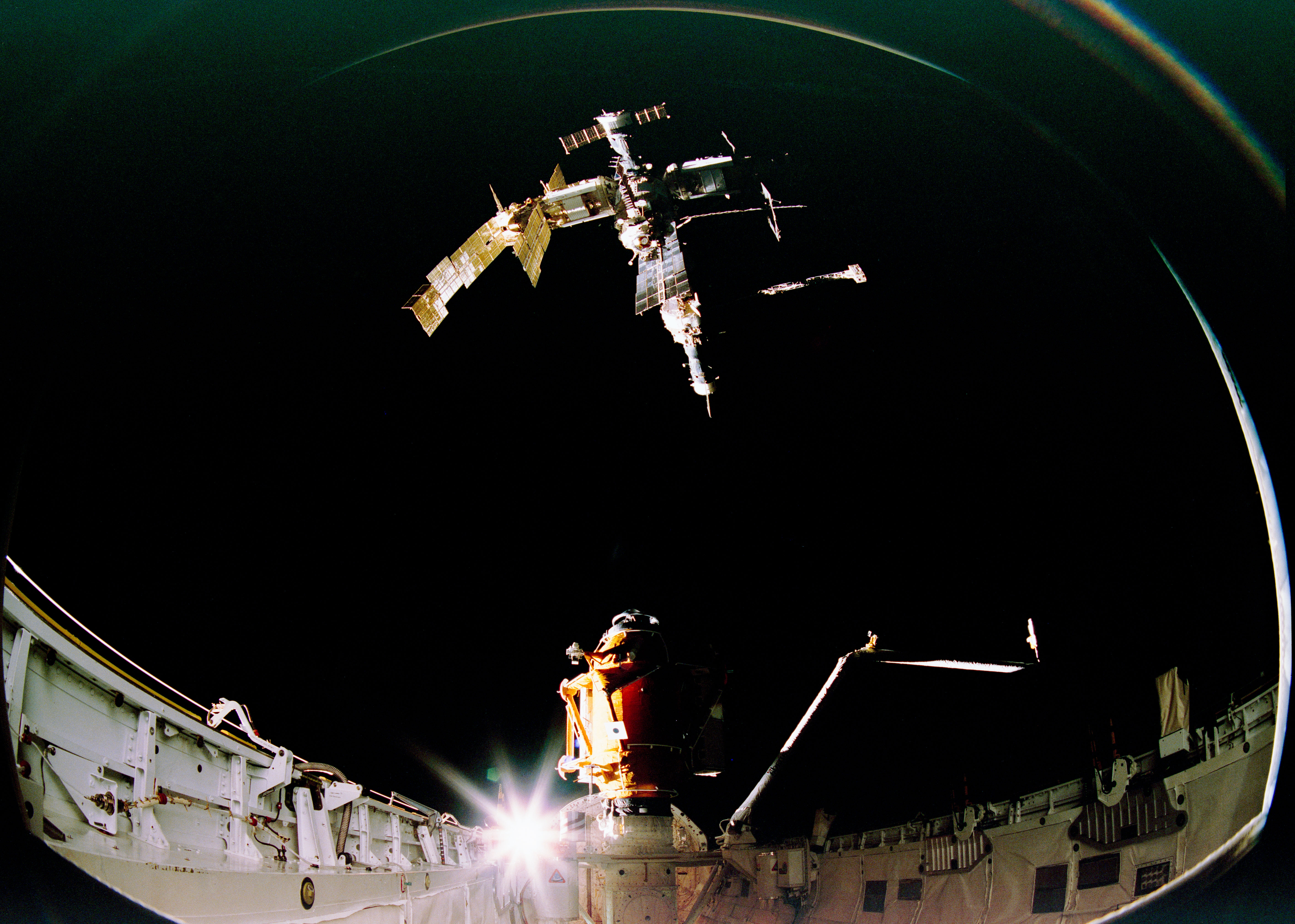 The Space Shuttle Atlantis moves within 80 feet of Russia's Mir Space Station during rendezvous and docking operations. During the STS-74 mission, the crew used an IMAX camera to document the Space Shuttle Atlantis' rendezvous and docking with the Mir Space Station. The 65mm camera system was located in the Atlantis' cargo bay and provided a unique fish-eye perspective. These images were selected from footage that will be incorporated in a large-format feature film about NASA's cooperative program with the Russians. Image #: s95-22092 Date: December 28, 1995